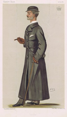 Caricature of The Earl of Durham. Caption read "Coals".